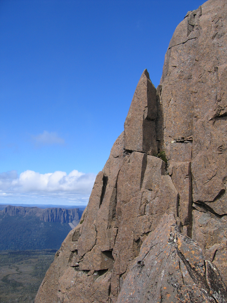 Cathedral Mountain from Mount Ossa